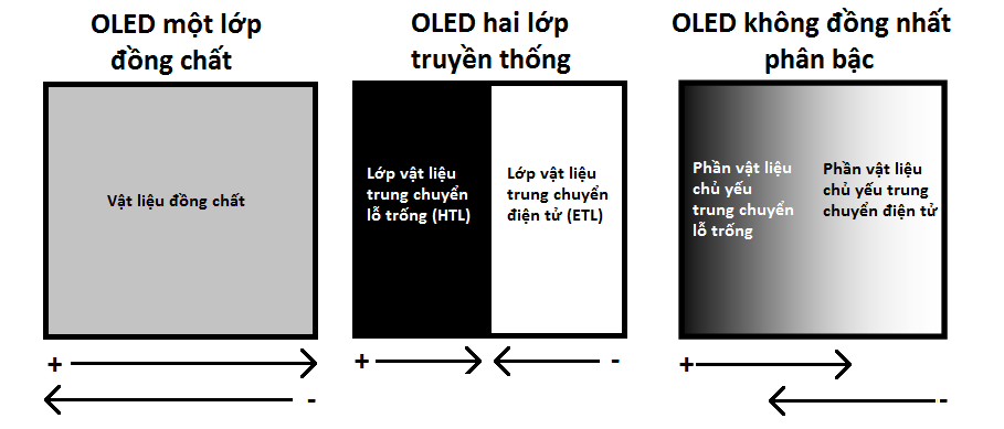 Three designs of OLED